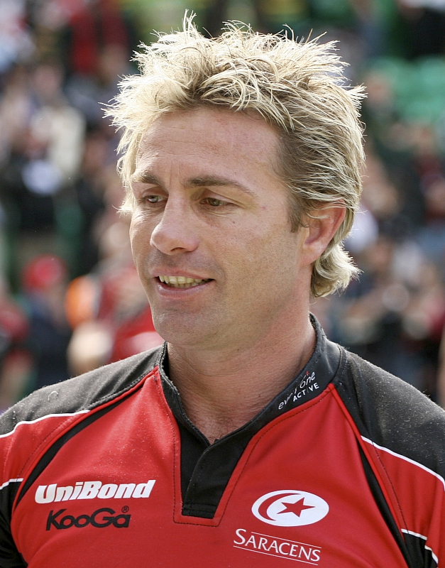 New Zealand's Justin Marshall playing for Saracens against Northampton Saints in the Guinness Premiership Semi-Final match, 16th May 2010